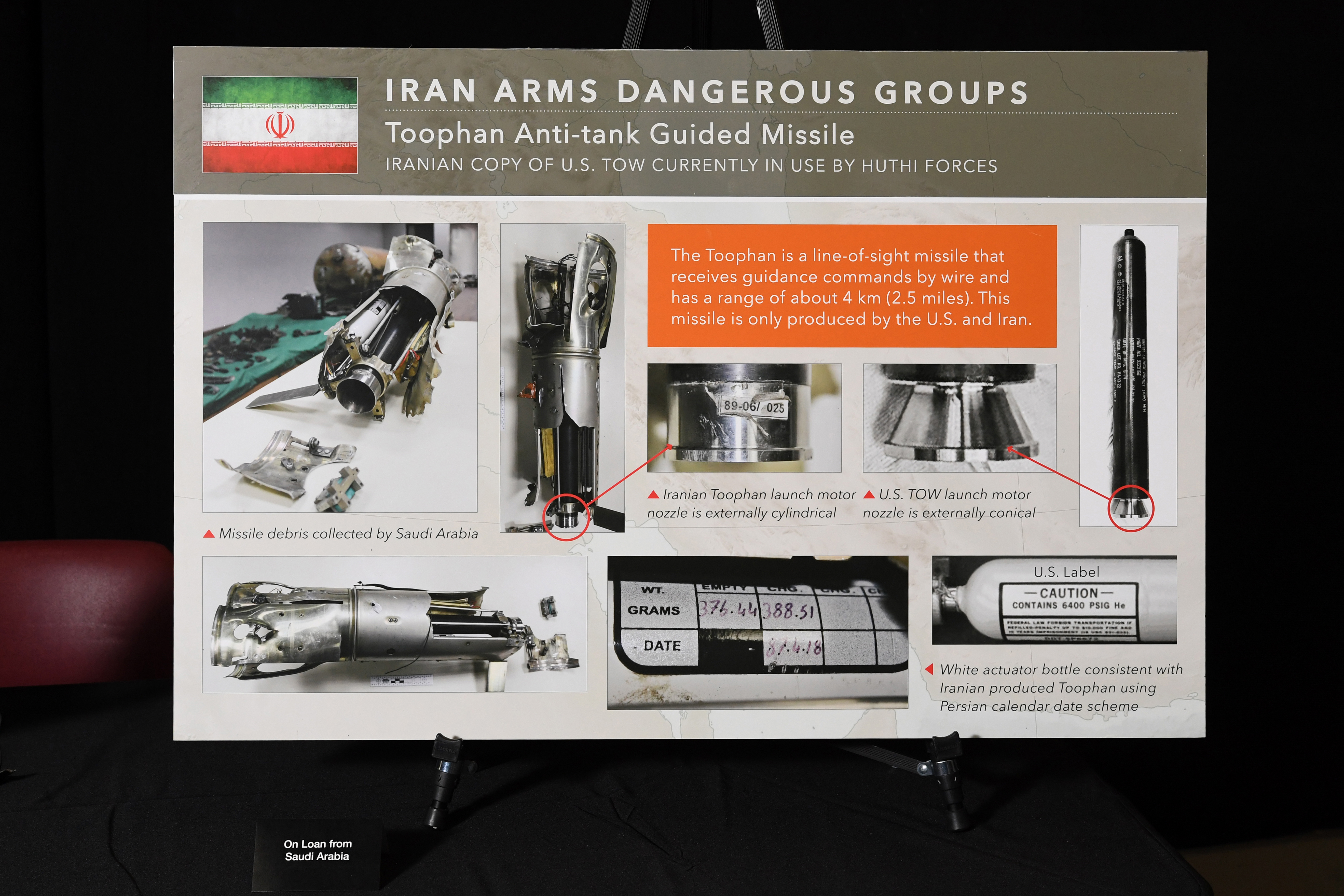 A sign explains the differences between U.S. and Iranian anti-tank missile designs while on display Joint Base Anacostia-Boling in Washington, D.C. Jan. 24, 2018. The sign accompanies a multi-national collection of evidence proving Iranian weapons proliferation in violation of United Nations resolutions 2216 and 2231. (DoD photo)